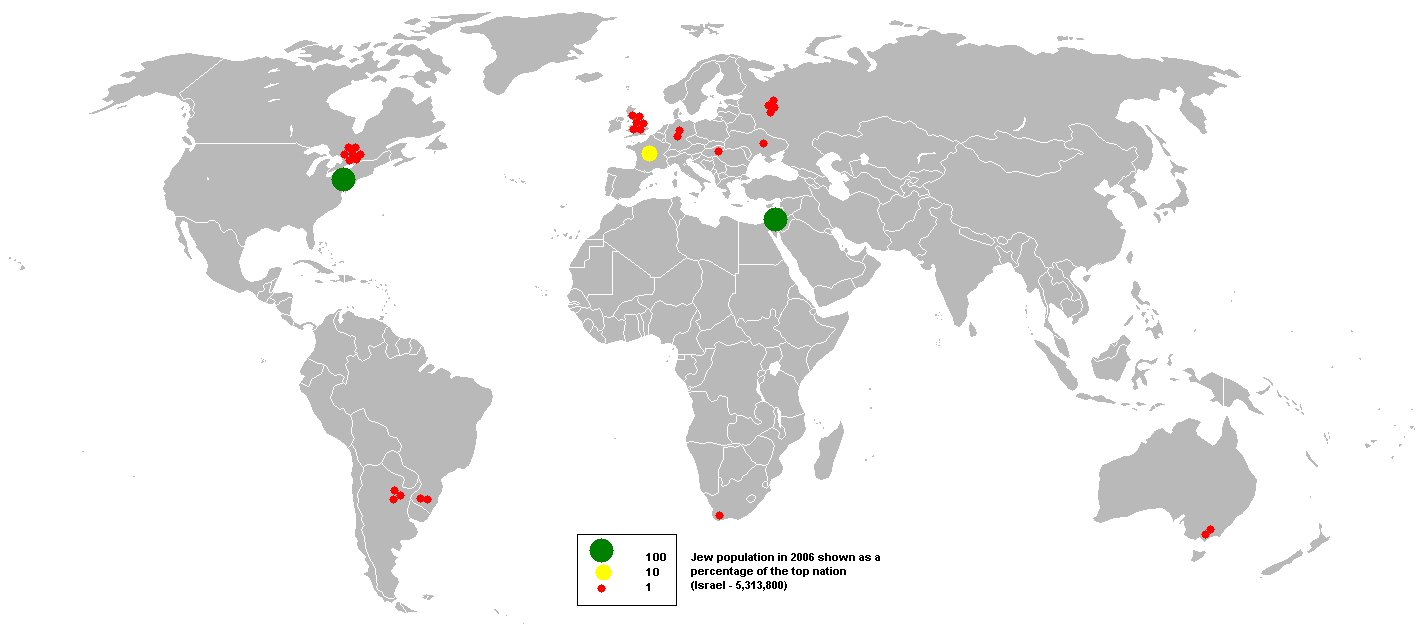 This bubble map shows the global distribution of Jews(??) in 2006 as a percentage of the top nation (Israel - 5,313,800). This map is consistent with incomplete set of data too as long as the top nation is known. It resolves the accessibility issues faced by colour-coded maps that may not be properly rendered in old computer screens. Data was extracted on 28th August 2007 from Based on :Image:BlankMap-World.png In INDIA also people staing in Kerala.